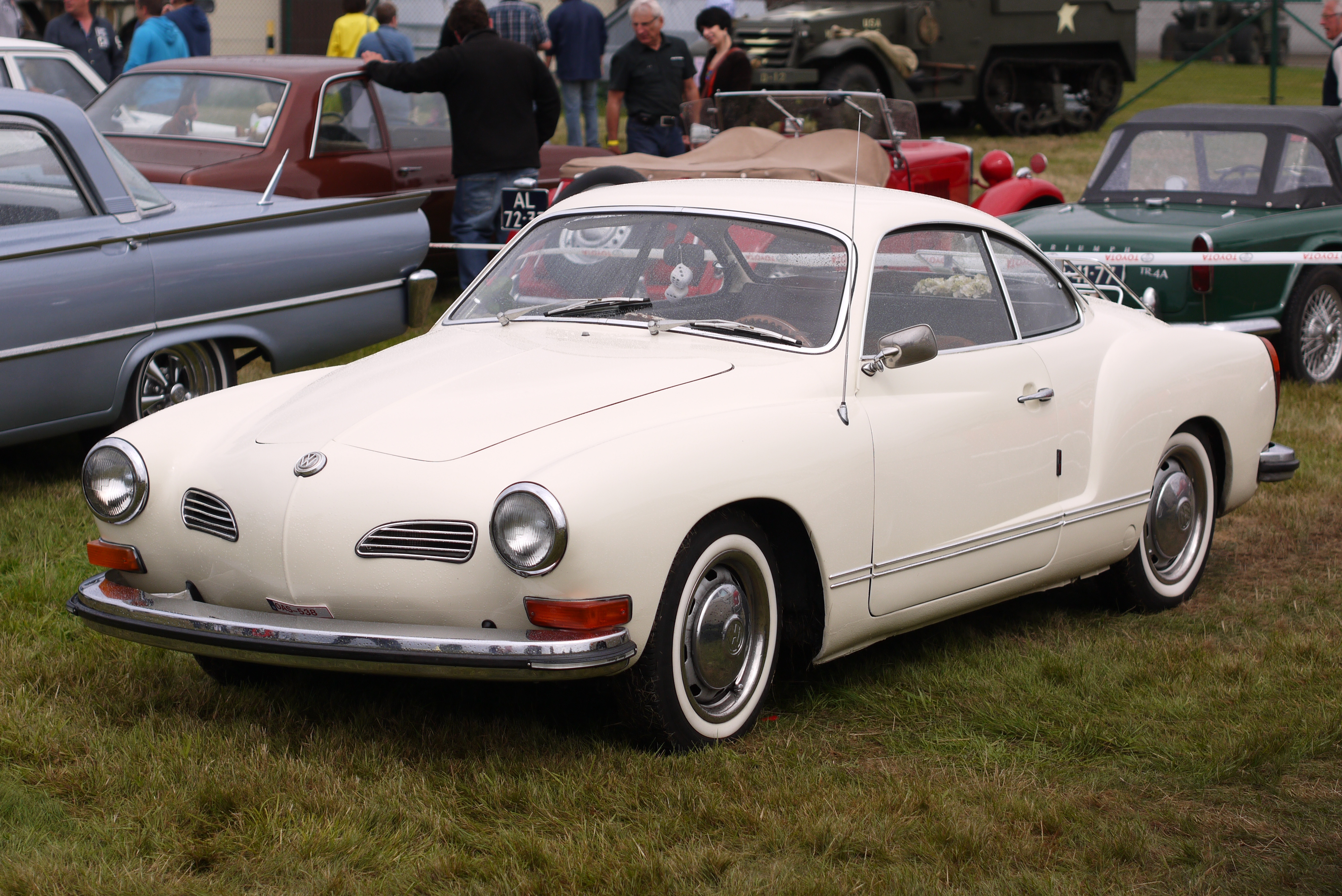 Volkswagen Karmann Ghia (Typ 14), Schaffen Diest Fly-Drive 2013